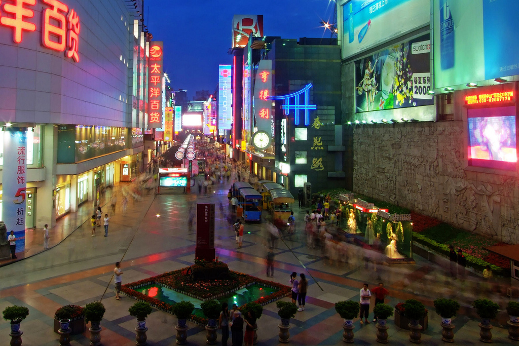 The entrance of Chunxi street,Chengdu,China.